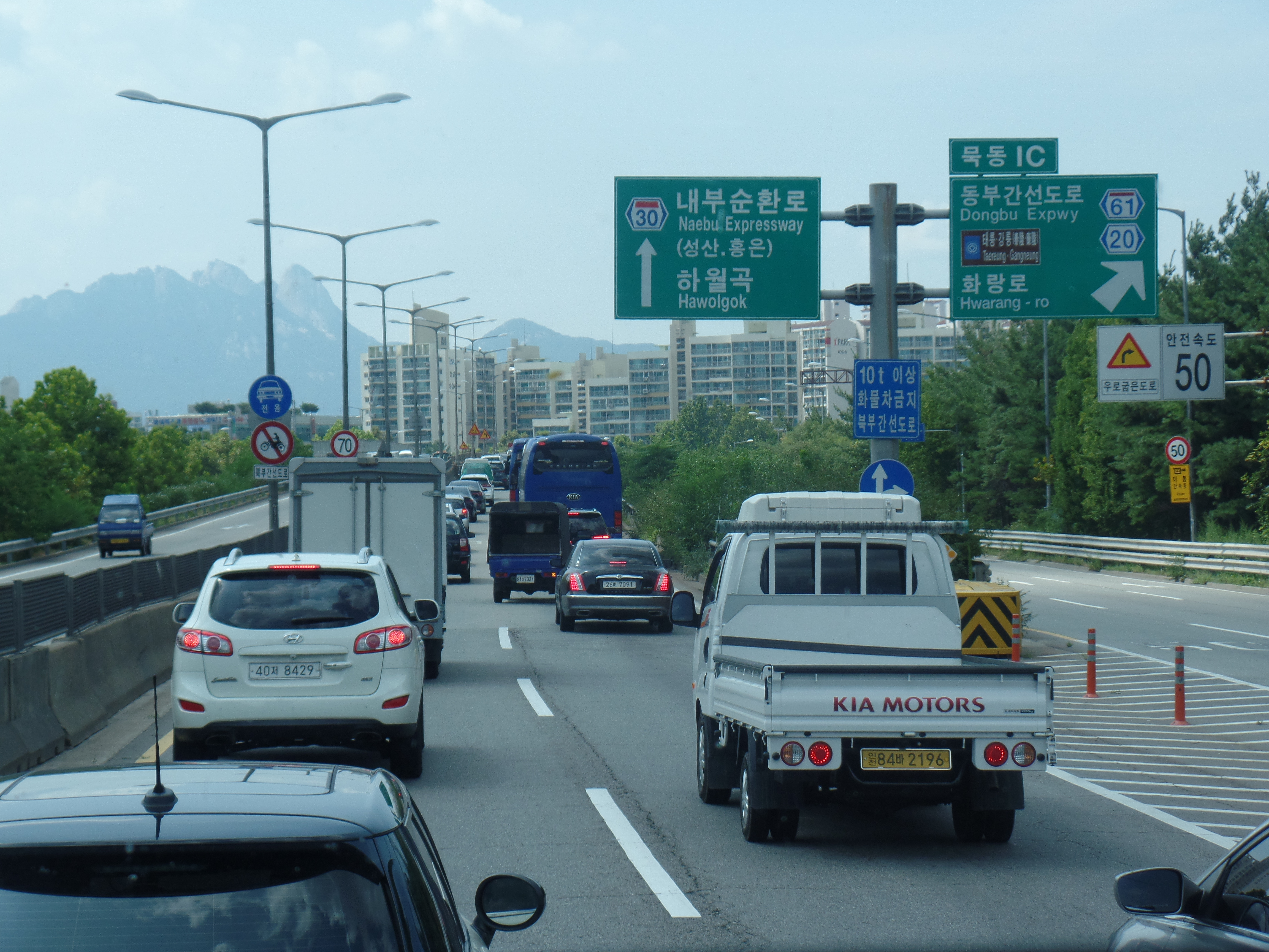 Bukbu Arterial Highway Mokdong Interchange(Hawolgok Junction Direction)